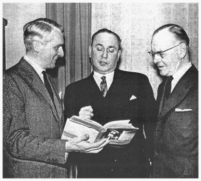 Photograph of (from left to right) the Finnish publisher Heikki A. Reenpää (1922–), writer Olavi Paavolainen (1903–1964) and publisher Hannes Reenpää (1900–1972).